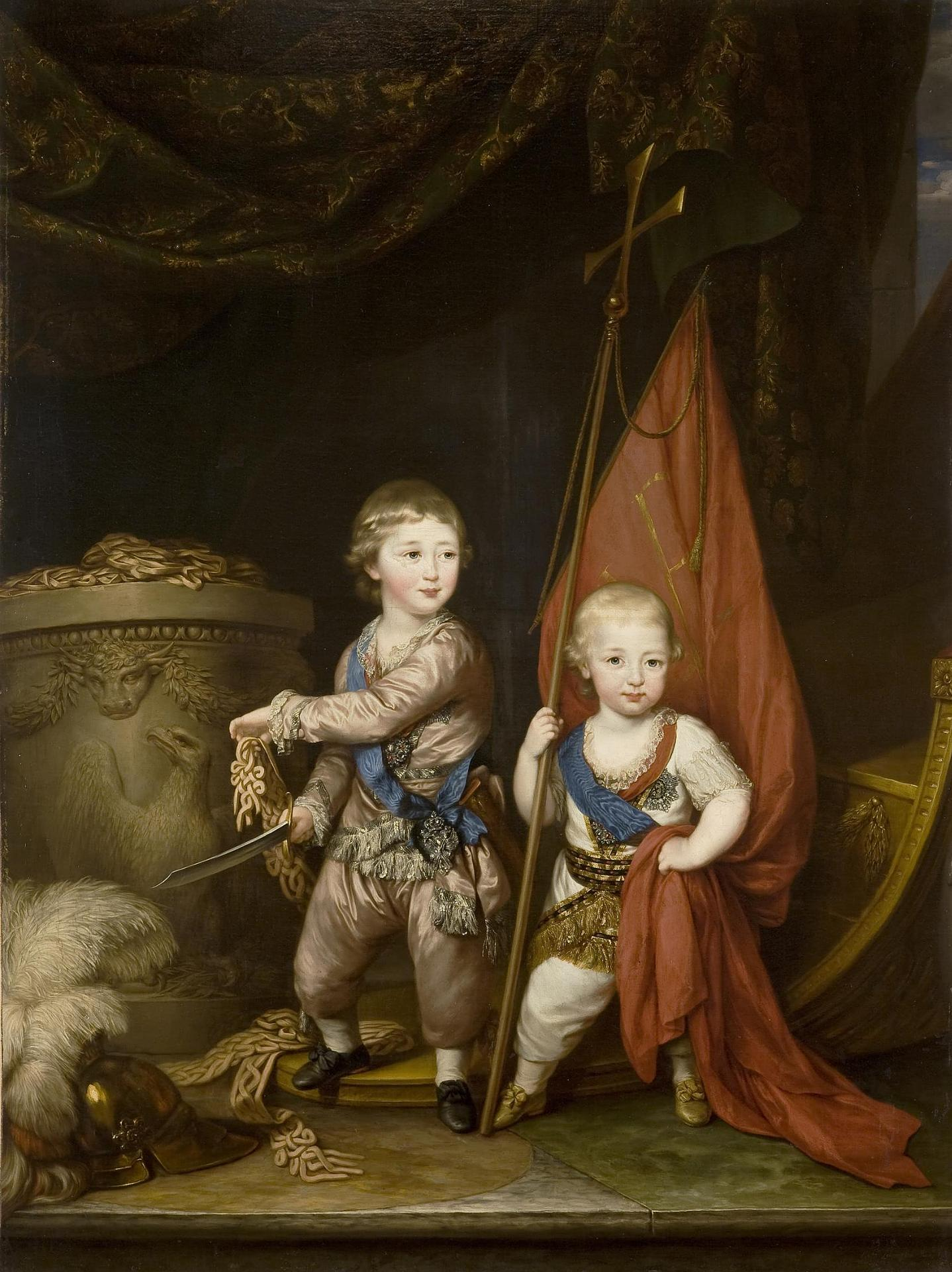 Portrait of Alexander and Constantine Pavlovich